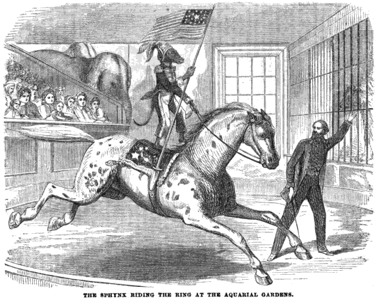 Illustration from: "Boston Aquarial and Zoological Gardens." Ballou's Dollar Monthly Magazine, v.16, no.1, July 1862.